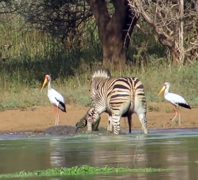 Crocodile attacking zebra in Kruger National Park